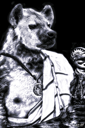 Picture by Drhoz for the Aurastorm setting